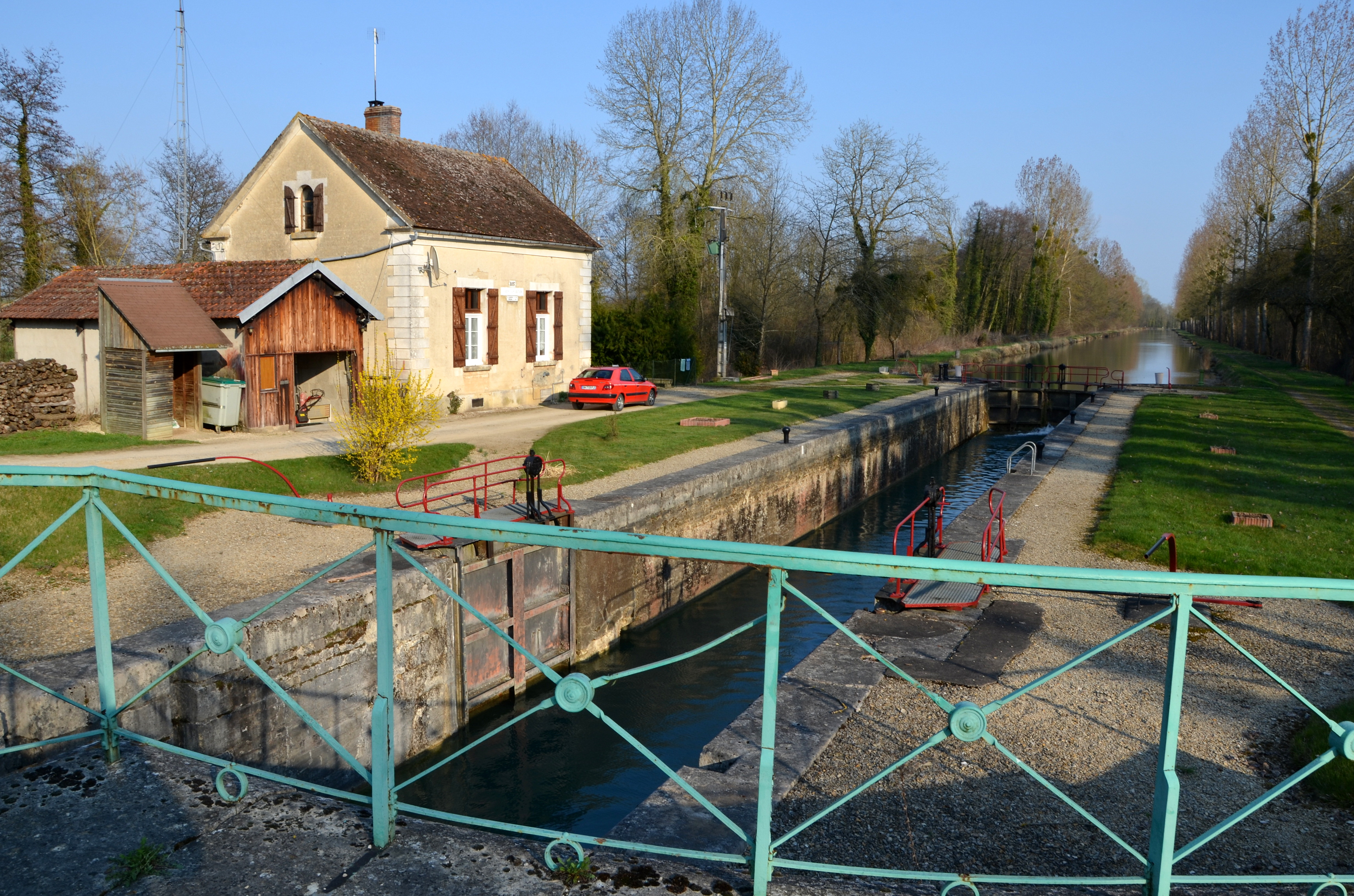 Lock of Egrevin, Germigny, canal of Burgundy, France